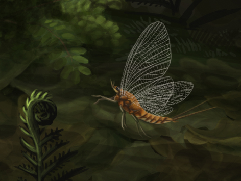 Early Cretaceous mayfly from the Yixian formation of China, previously known as Ephemeropsis